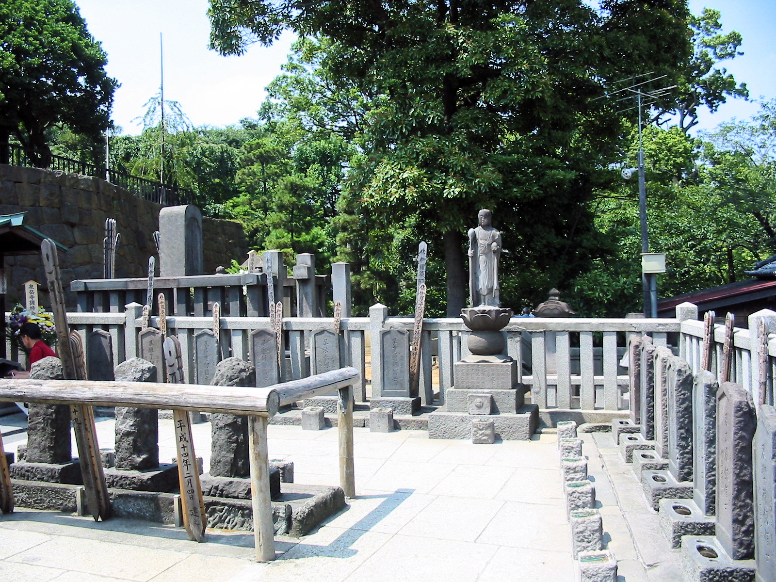 Graves of the 47 Ronin at Sengaku-ji temple, Tokyo.